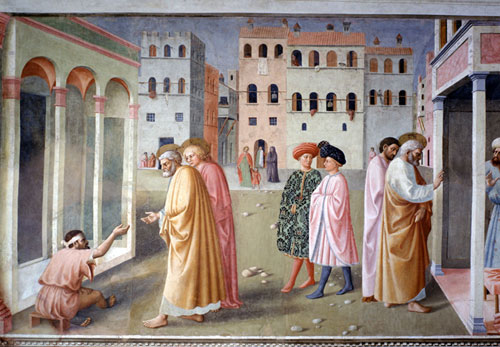 Masolino at the Brancacci Chapel, The Healing of Tabitha